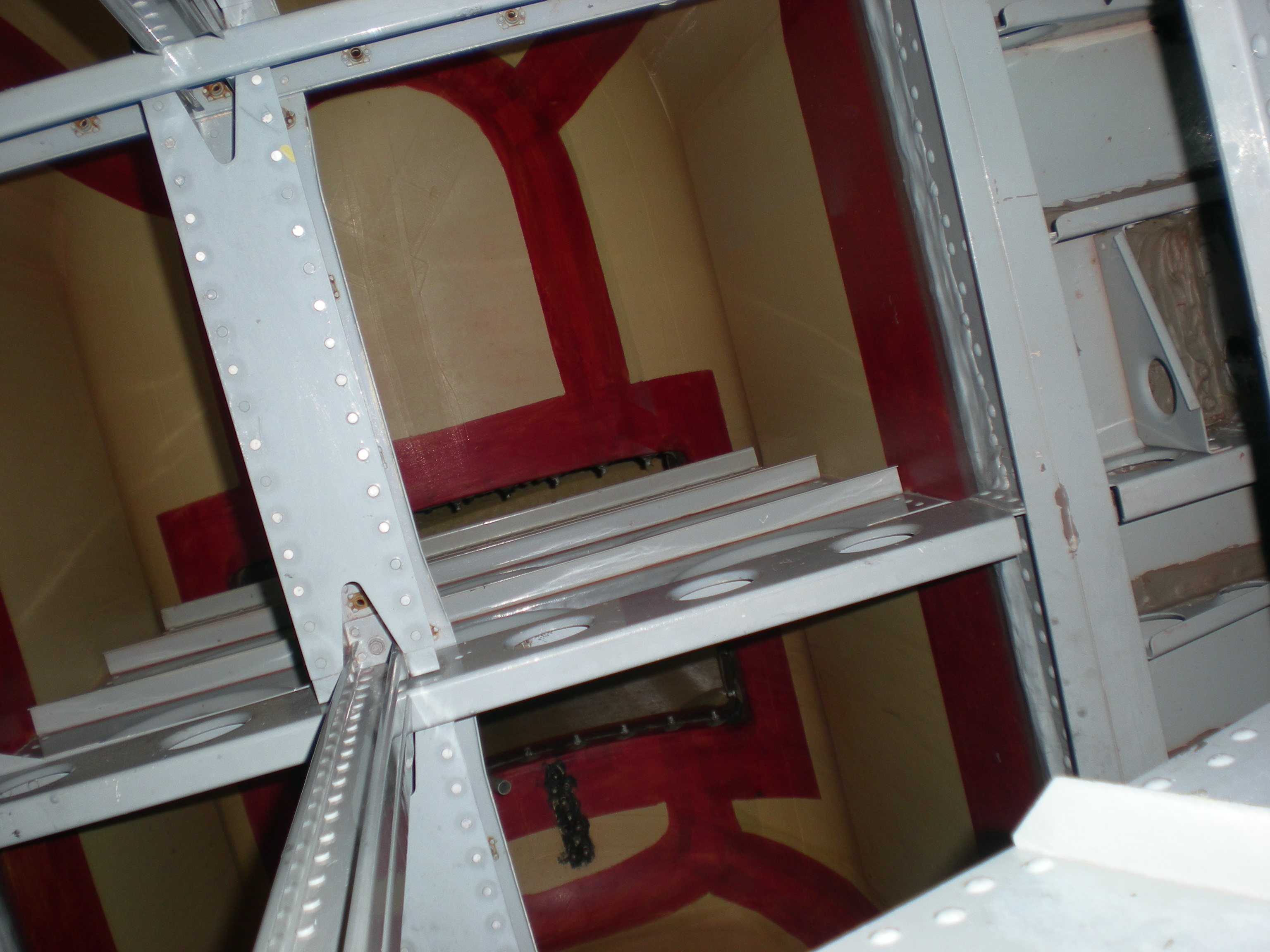 Water "bomb door" on the left side of a Buffalo Airways Canadair CL-215 at Yellowknife, Northwest Territories, Canada.